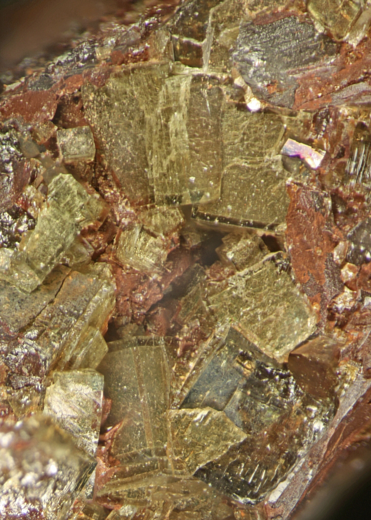 Pharmacosiderite Locality: Wheal Gorland, St Day, Cornwall, England, UK FOV 4.3 mm x 5.9 mm Thanks to Ralph Thomas. MOB coll. Interestingly zoned xls. But it works much better in stereo - see the child photo.